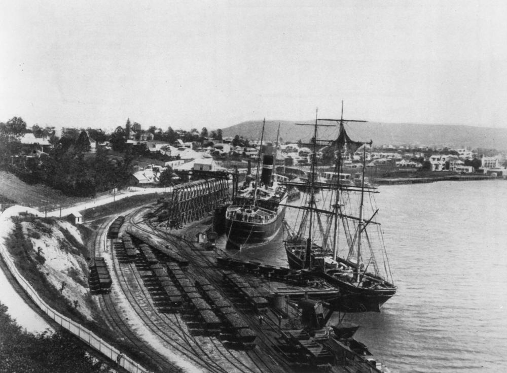 Rail yards and ships at the South Brisbane wharves